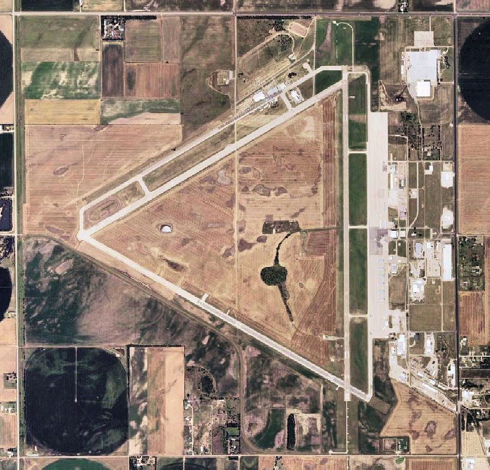 USGS orthophoto of Great Bend Municipal Airport, formerly Great Bend Army Airfield, in Kansas, United States